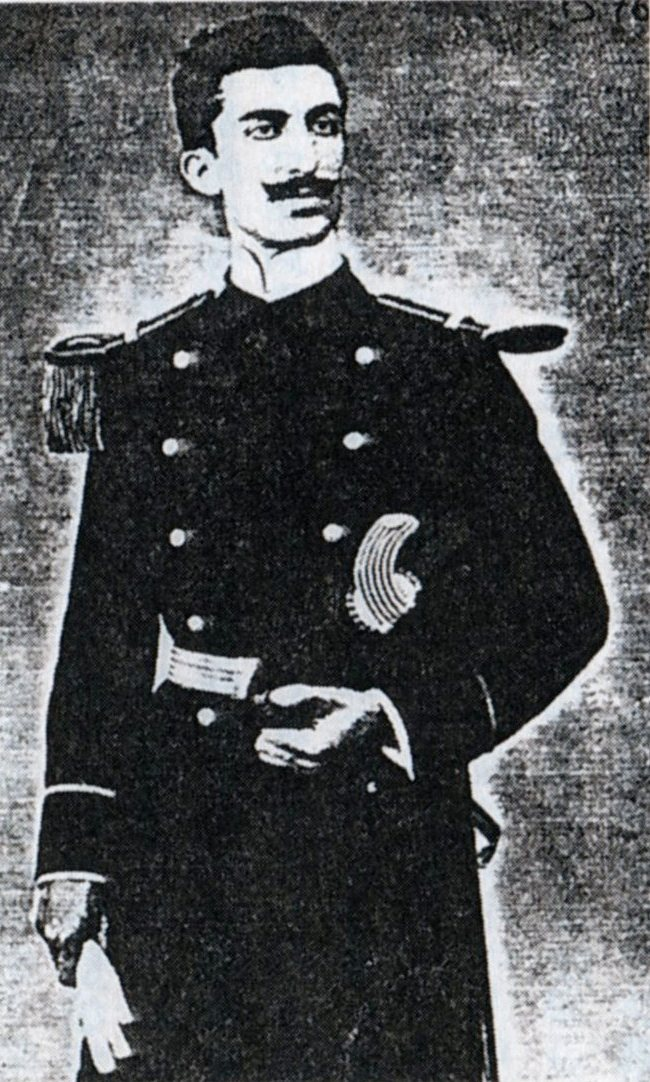 Yves Paul Gaston Le Prieur was an officer of the French Navy and an inventor